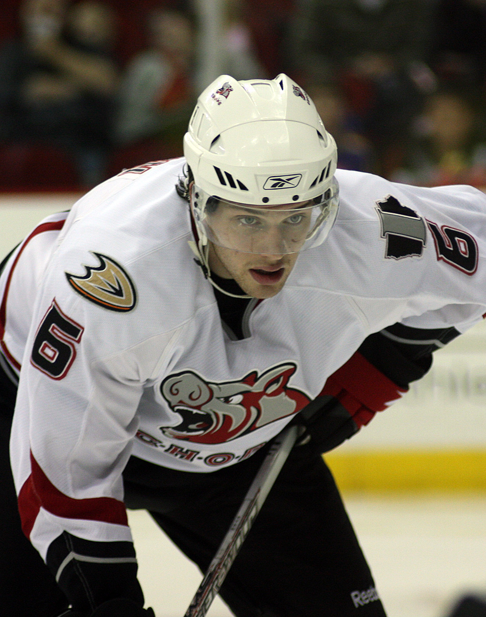 NHL/AHL Player Bobby Ryan playing for the Iowa Chops in November 2008